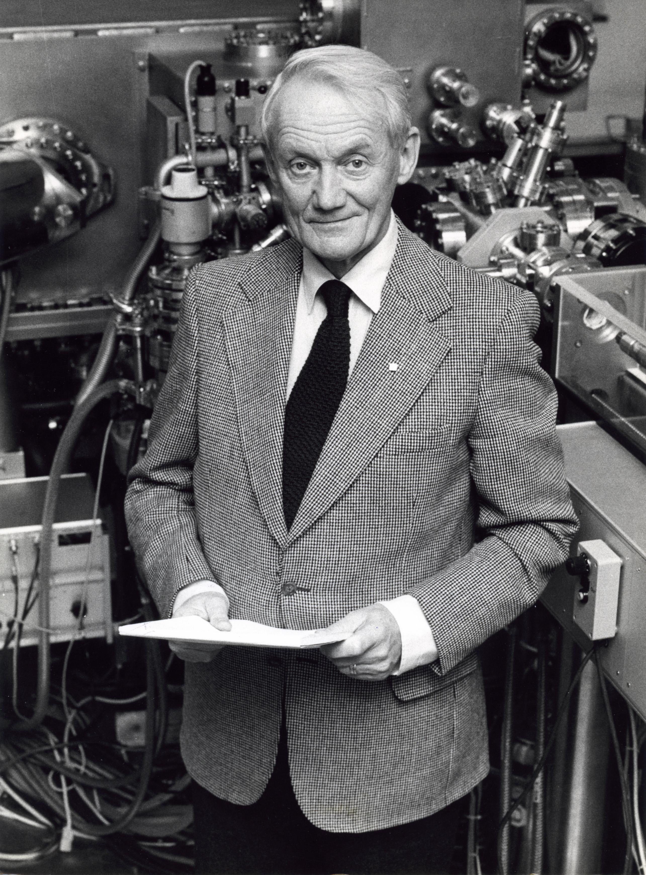 Kai Manne Börje Siegbahn